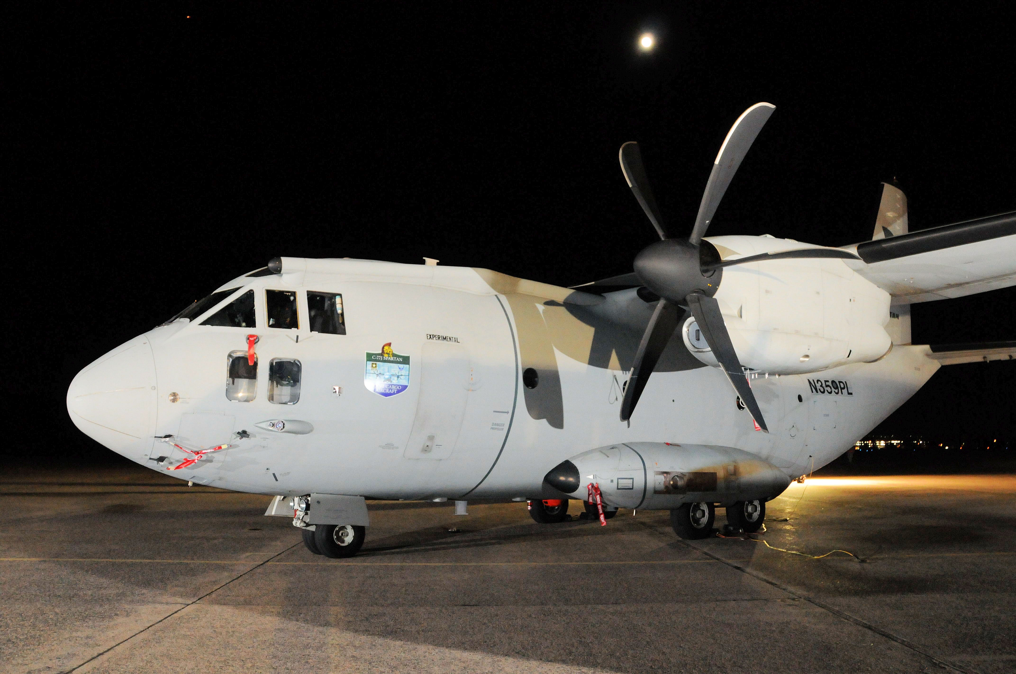 A C27J Spartan is shown on the ramp during a familiarization visit to the Bradley Air National Guard Base in East Granby, Conn. on Thursday, Oct. 21, 2010. The aircraft visit afforded the Flying Yankees of the 103rd Airlift Wing an opportunity to experience its future mission capabilities first hand. (U.S. Air Force photo by Tech. Sgt. Erin E. McNamara)